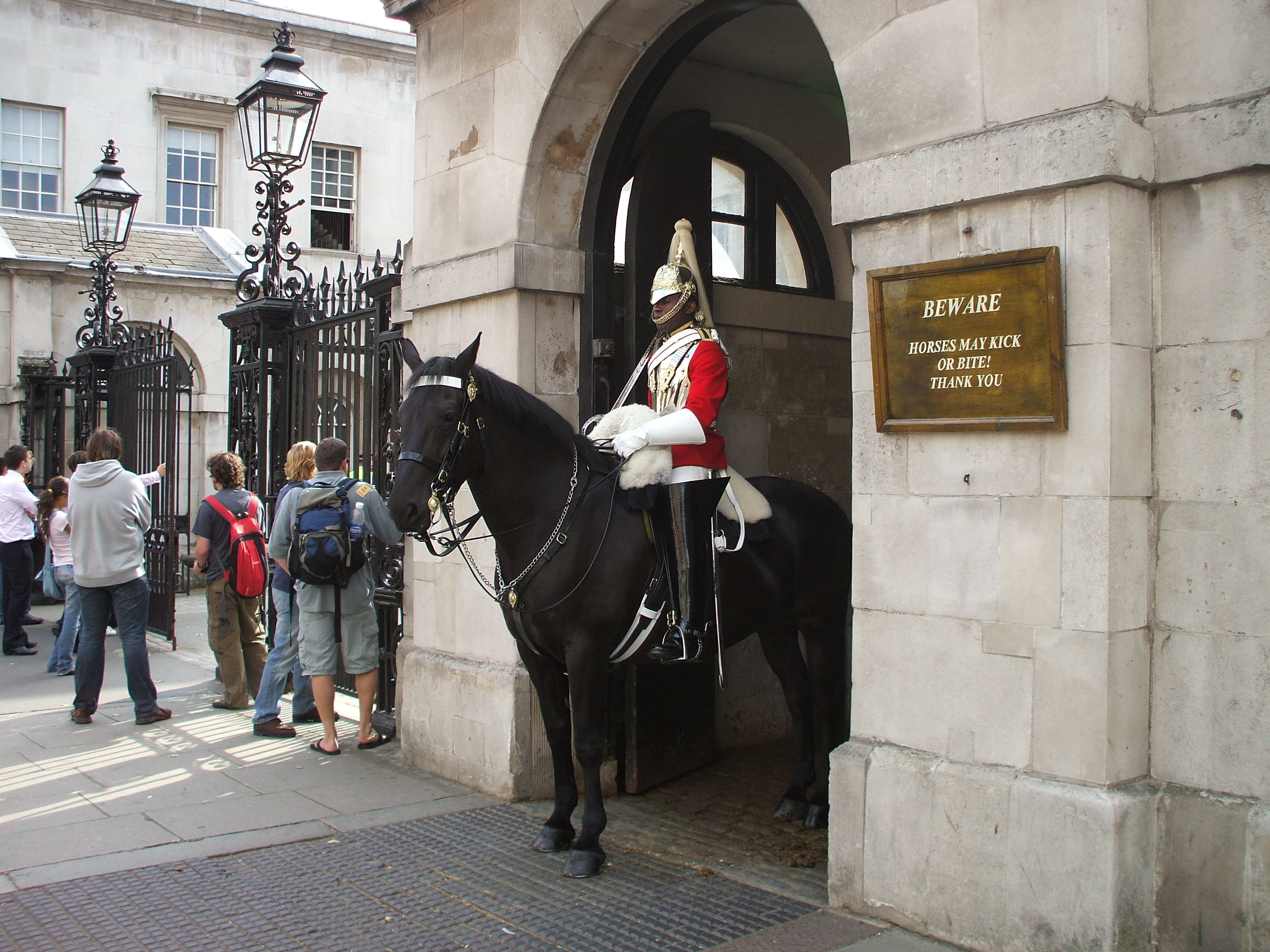 A member of the Household Cavalry holding watch over the Horse Guards on Whitehall.